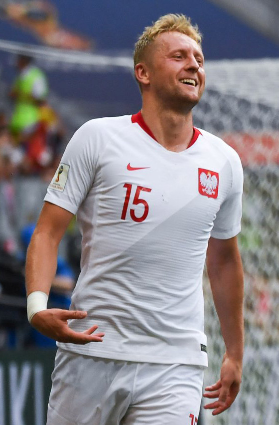 Polish footballer Kamil Glik on 28 June 2018, during the 2018 FIFA World Cup group stage match between Poland and Japan.